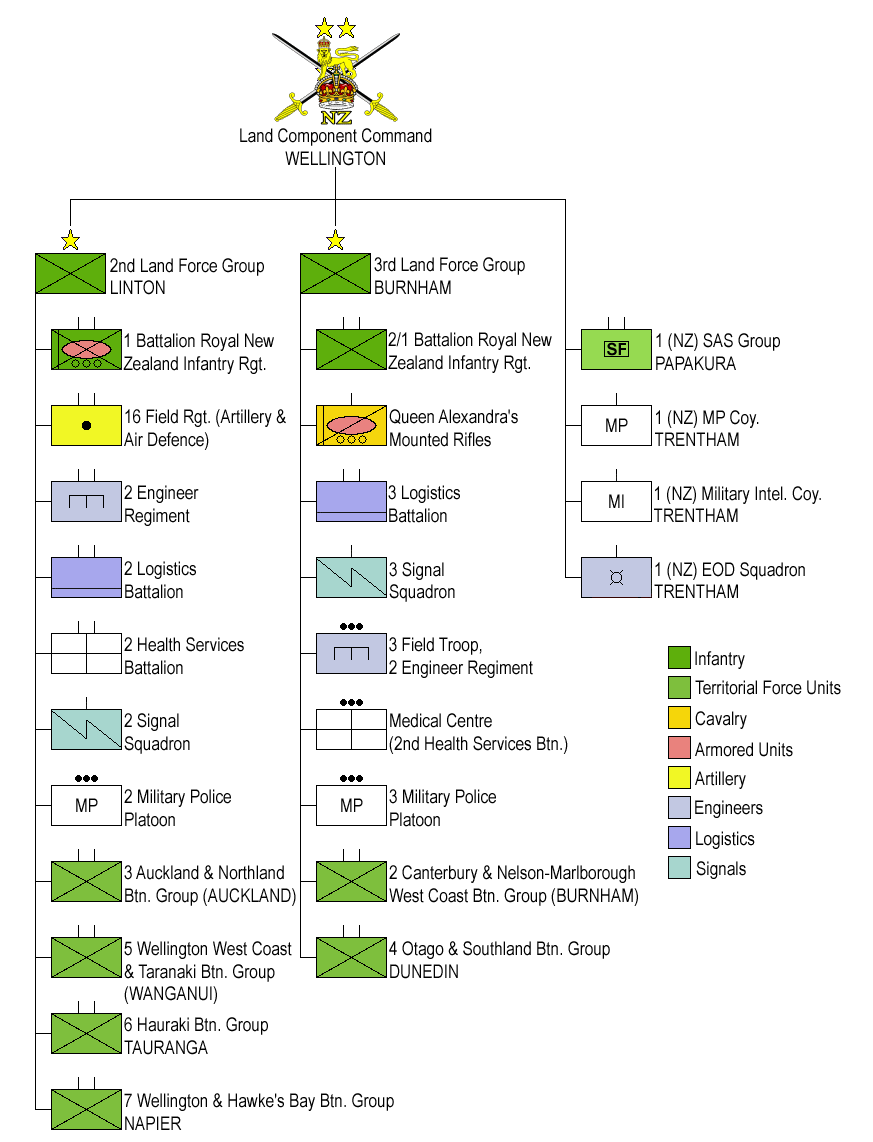 Structure of the New Zealand Army. Reference: .